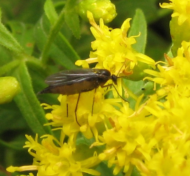 Female Sciaridae (fungus gnat) on goldenrod. Bowman's Hill Wildflower Preserve, Bucks County, Pennsylvania, USA.